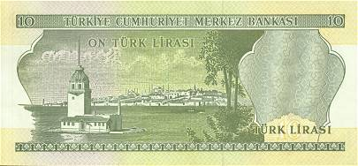 10 TL